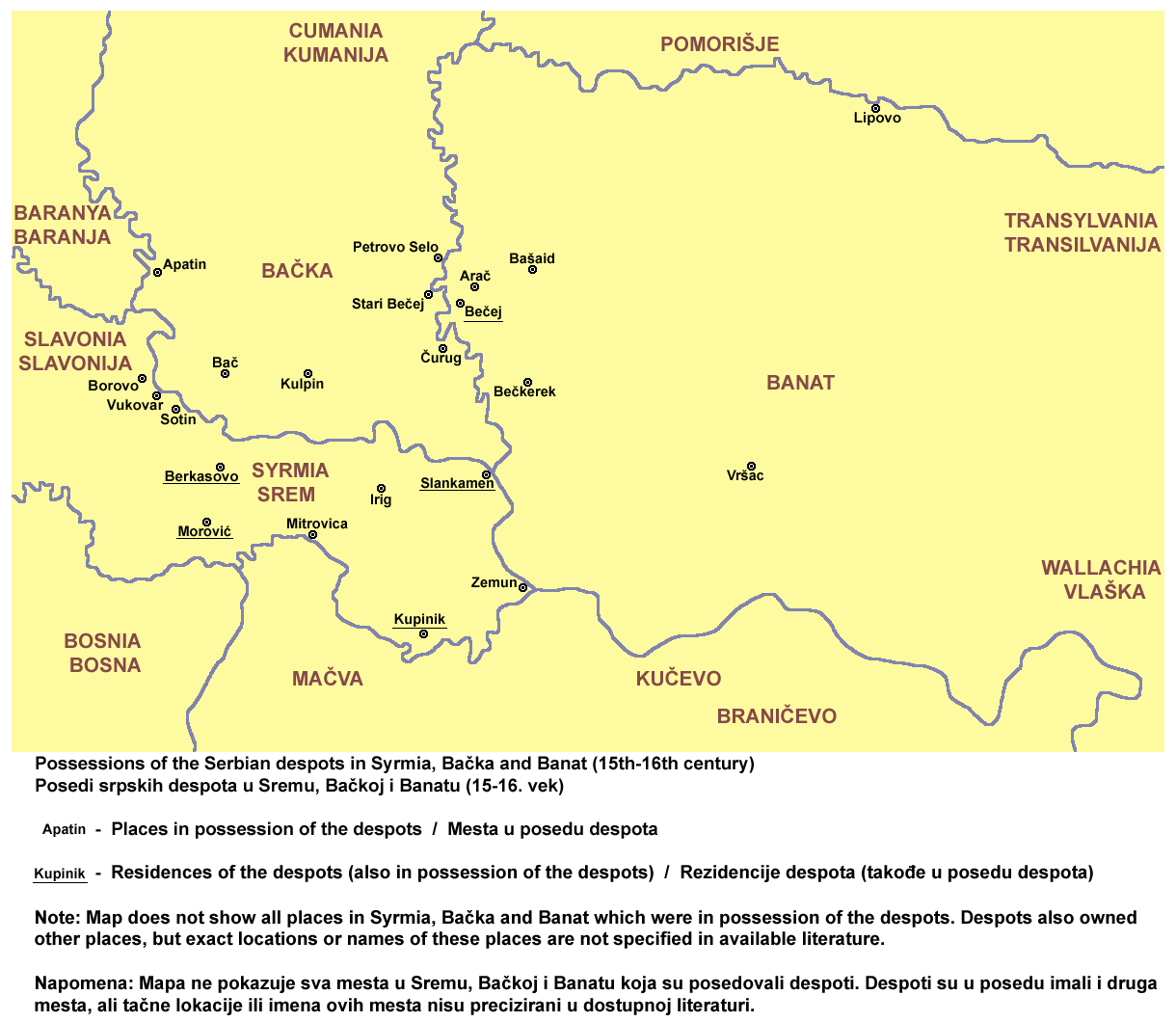 Possessions of the Serbian despots in Syrmia, Bačka and Banat (15th-16th century). Posedi srpskih despota u Sremu, Bačkoj i Banatu (15-16. vek).